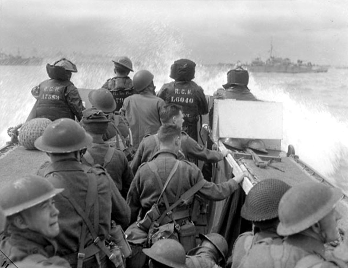 Infantrymen in a Landing Craft Assault (LCA) going ashore from H.M.C.S. PRINCE HENRY off the Normandy beachhead, France, 6 June 1944